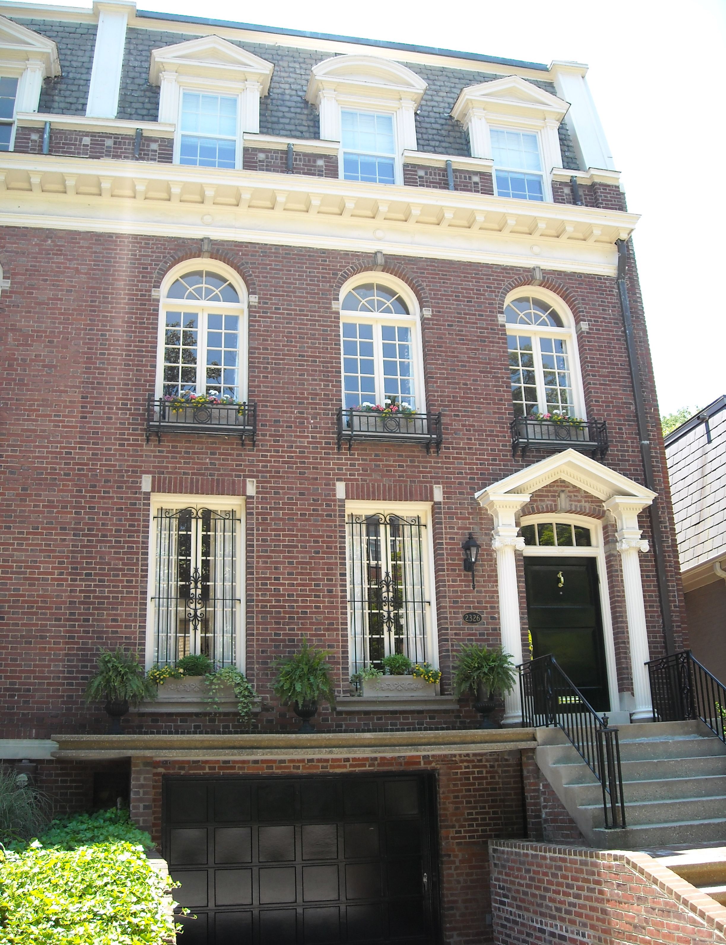 Frances Perkins House, a National Historic Landmark, in Washington, D.C.